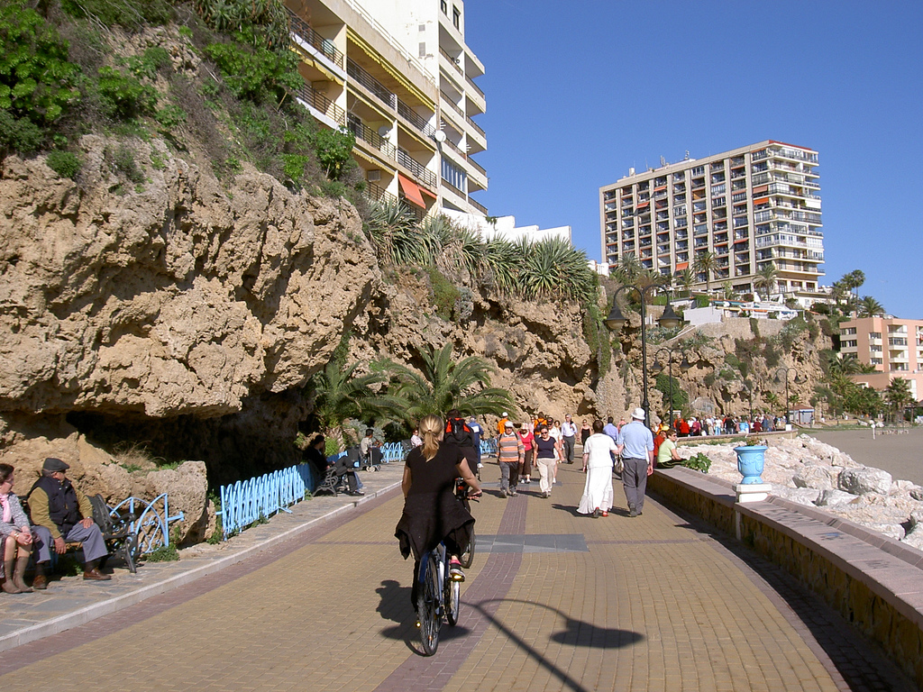 Torremolinos, Spain.